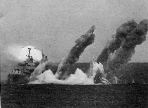 The U.S. Navy Gearing-class destroyer USS Samuel B. Roberts (DD-823) being sunk as a target by a Grumman A-6A Intruder of attack squadron VA-34 Blue Blasters (Cdr. Turk), assigned to Carrier Air Wing 1 (CVW-1), aboard the aircraft carrier USS John F. Kennedy (CVA-67), 14 November 1971.